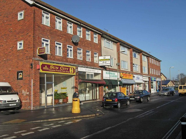 Shops in Rowner Lane